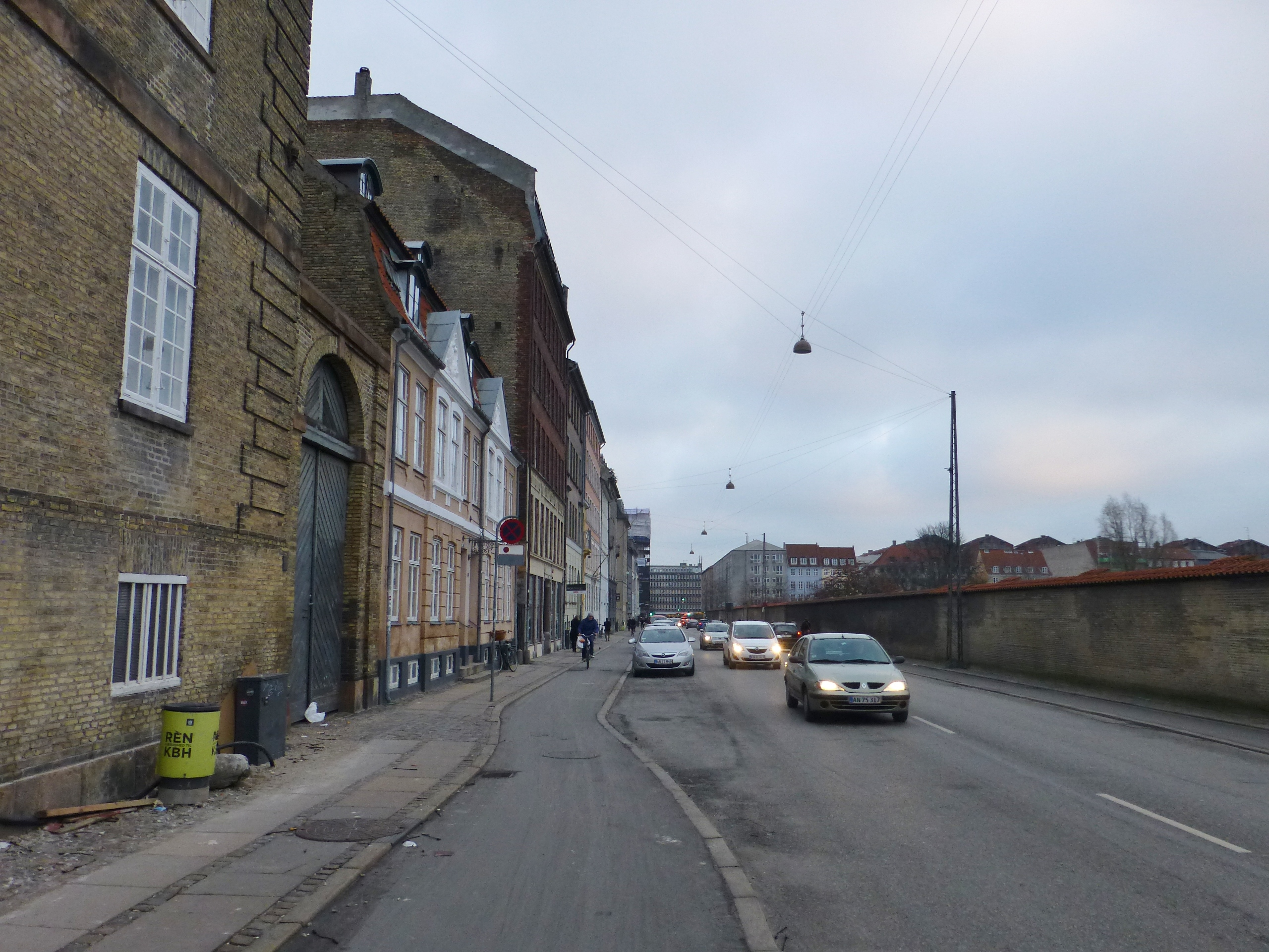 The street Sølvgade in Indre By in Copenhagen.